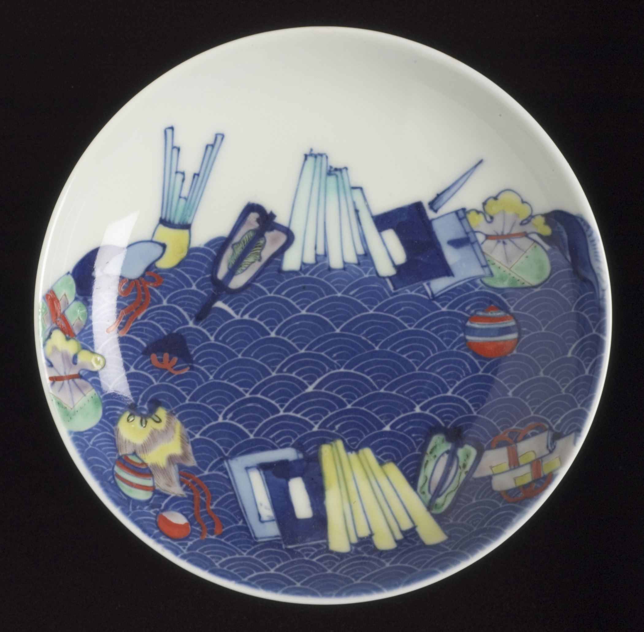 Japan, 19th century Furnishings; Serviceware Nabeshima ware; white, blue red, yellow, and green glazes Height: 1 5/8 in. (4.13 cm); Diameter: 5 7/8 in. (14.92 cm) Gift of Allan and Maxine Kurtzman (M.2003.154.20) Japanese Art